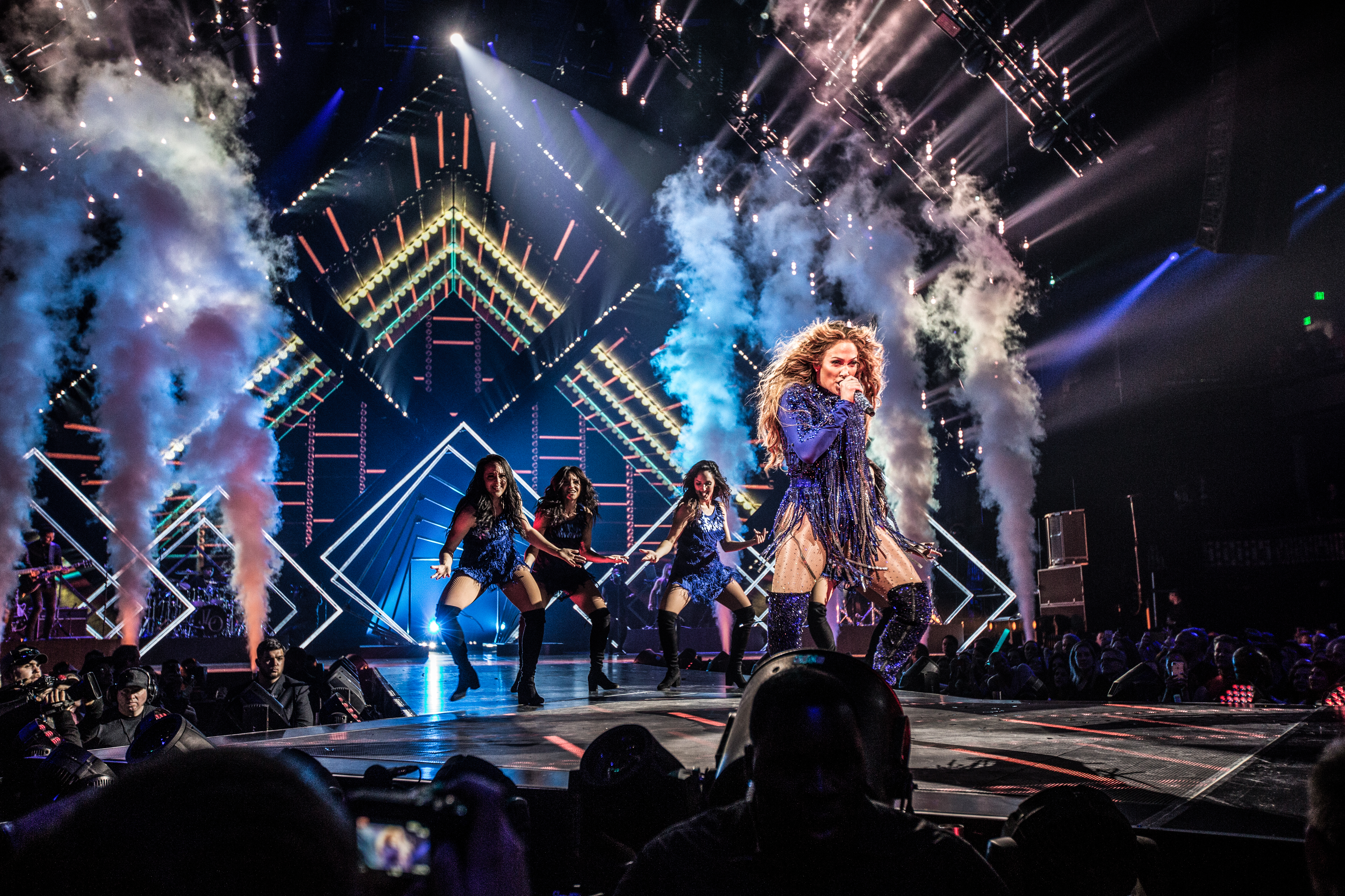 JLO Performing at The Armory for Super Bowl 52, 2018